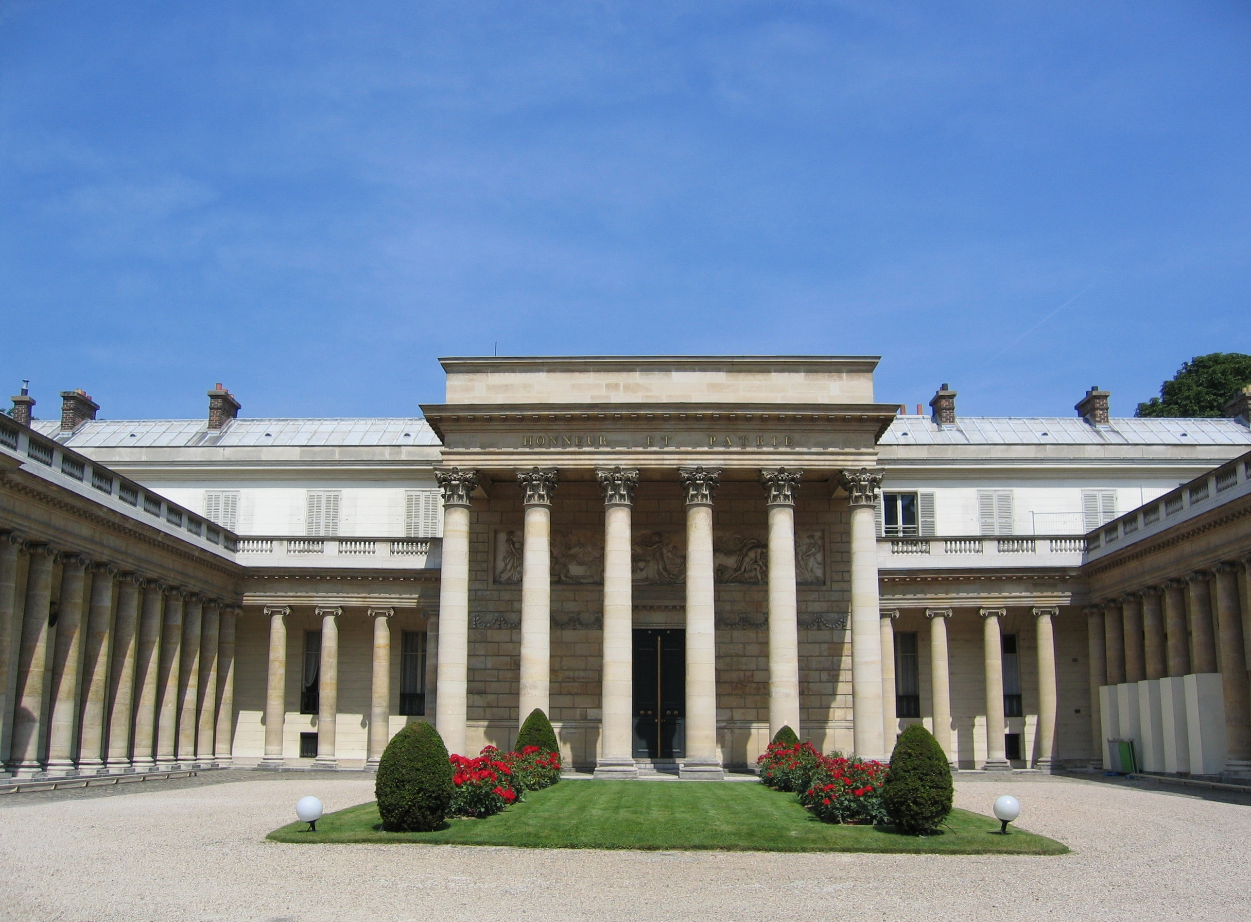 Hôtel de Salm, Grande Chancellerie de la Légion d'Honneur, in Paris, France